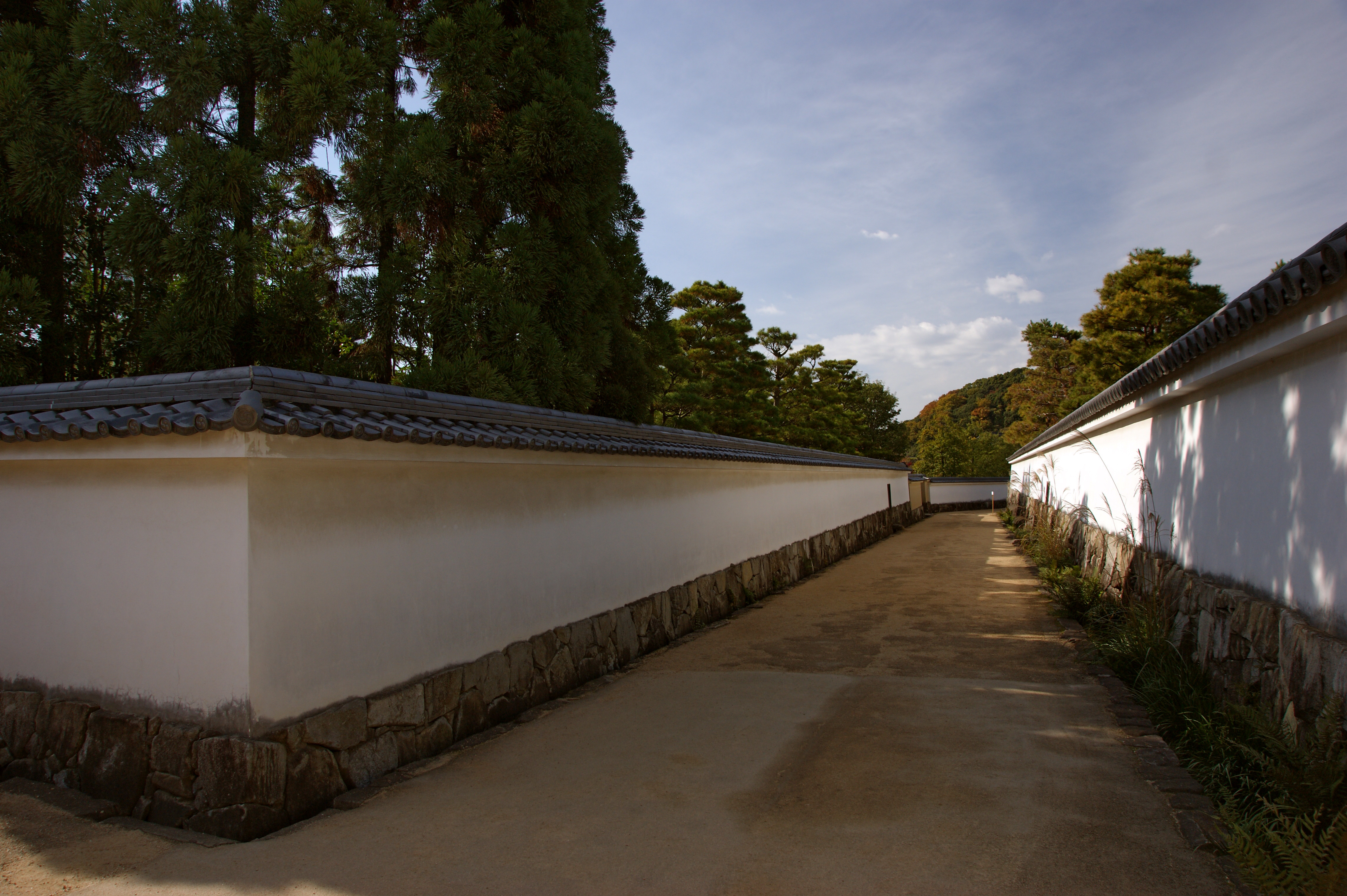 Garden wall, Koukoen, Himeji, Hyogo prefecture, Japan